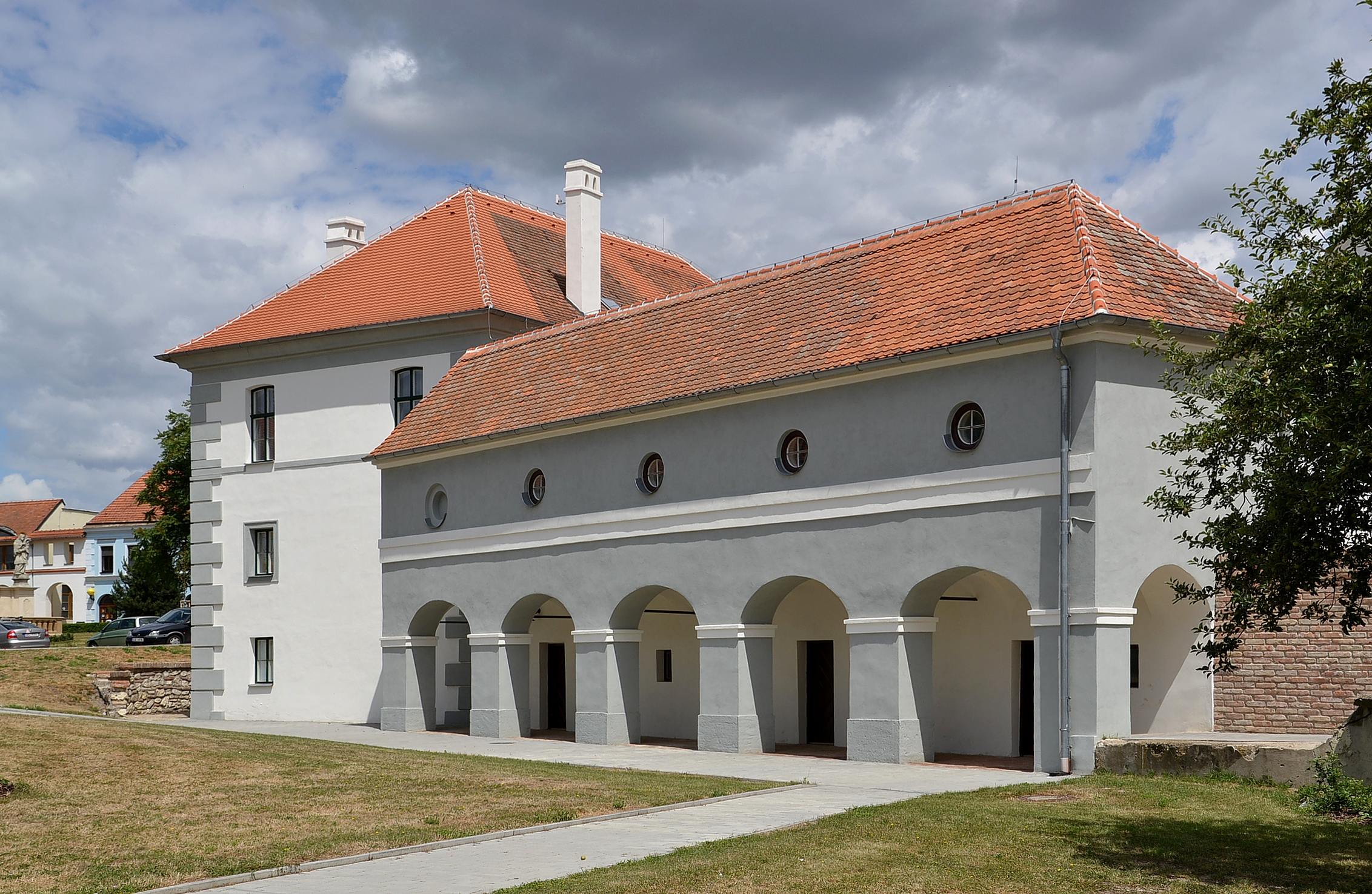 Drnholec (Dürnholz) - former town hall